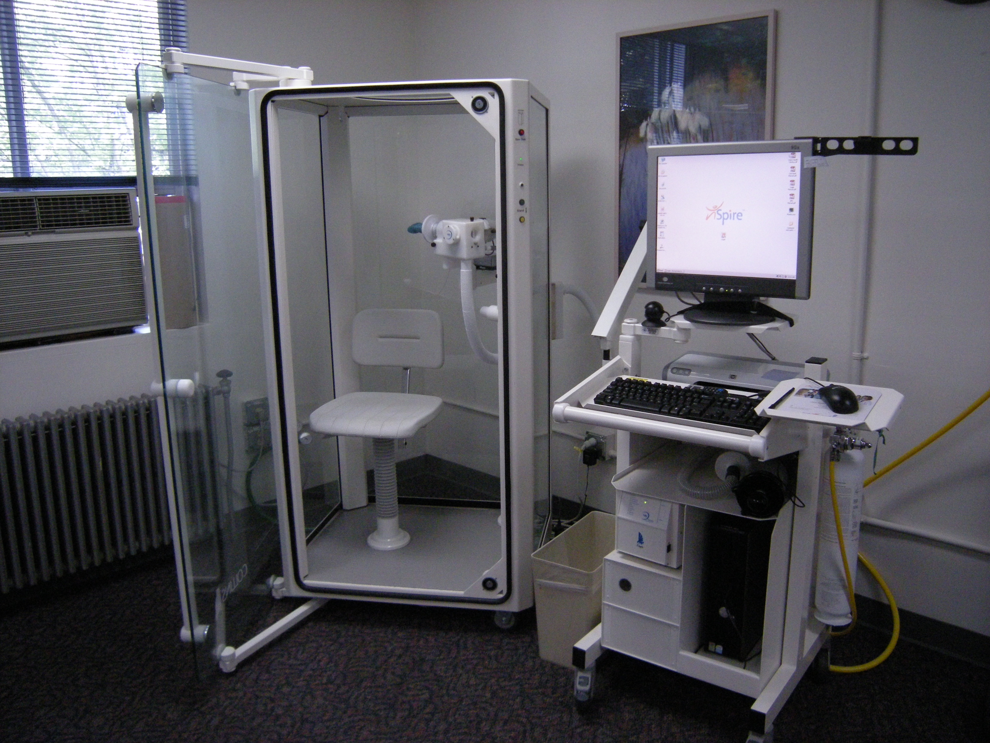 Chamber used for Body Plethysmography and other related medical tests. Photographed at Swedish Hospital Ballard Campus, Seattle, Washington.